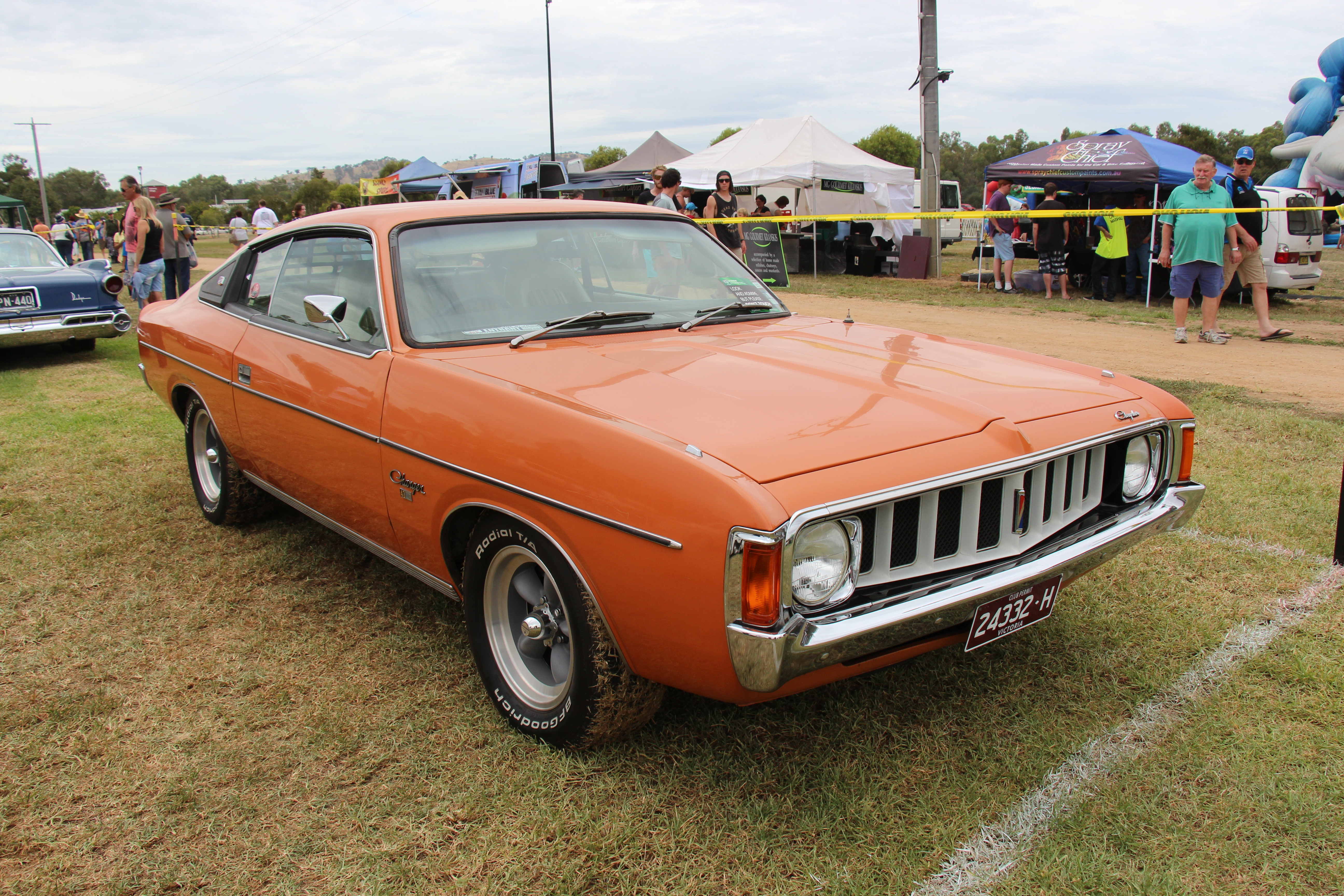 Desert Orange. A mild facelift on the VJ; The VK recognisable by small indicator repeaters on top of the front guards. The VK Rangers and Chargers got the VJ Charger grille while the Regal got a different grille again. The Charger was now called the Chrysler Charger (Valiant was dropped). 100 Red and 100 White White Knight Special Chargers were built Built from October 1975-Nov 1976 Engines; 245 or 265 Hemis and 318 or 360 V8s (no 6 pack cars) Chargers XL or 770